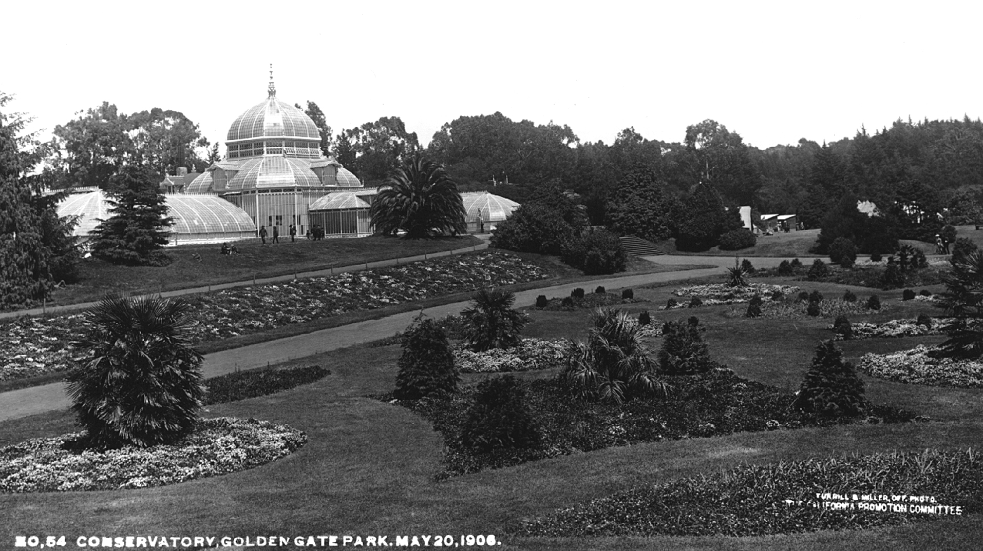 Historic view of the Conservatory of Flowers in San Francisco, California